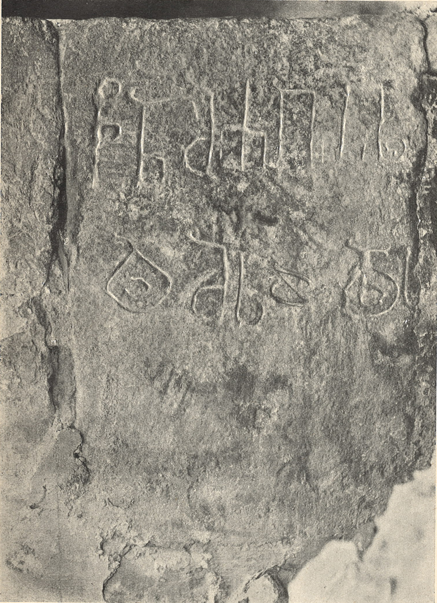 A fragment of the Georgian inscription from a ruined church in Ardanuç (Artanuji). From Nicholas Marr's dairy of his travels to Shavsheti and Klarjeti (1911).